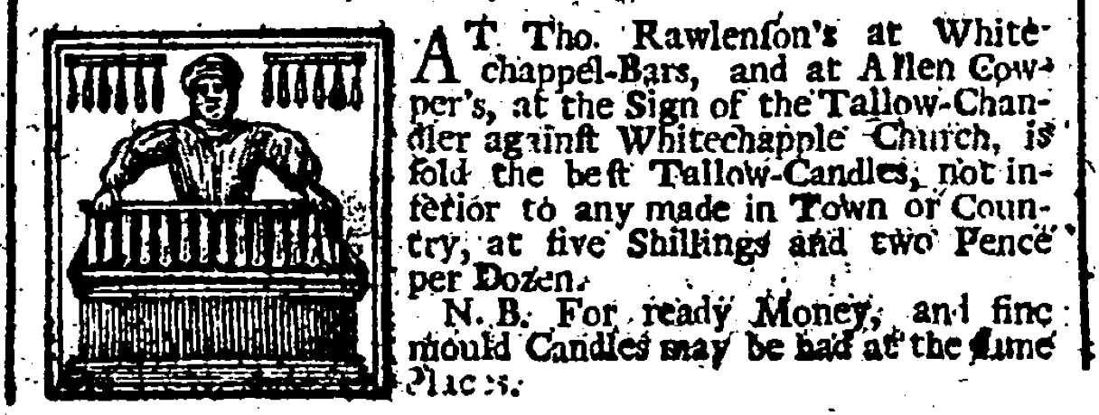 Advertisement for Sign of the Tallow-Chandler, London